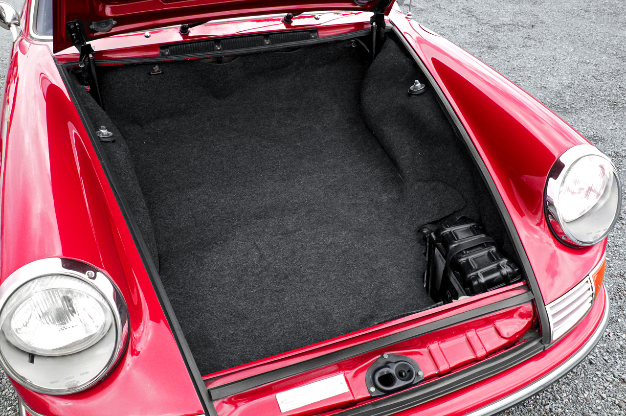 Luggage compartment Porsche 911 2.0 ( '66 )